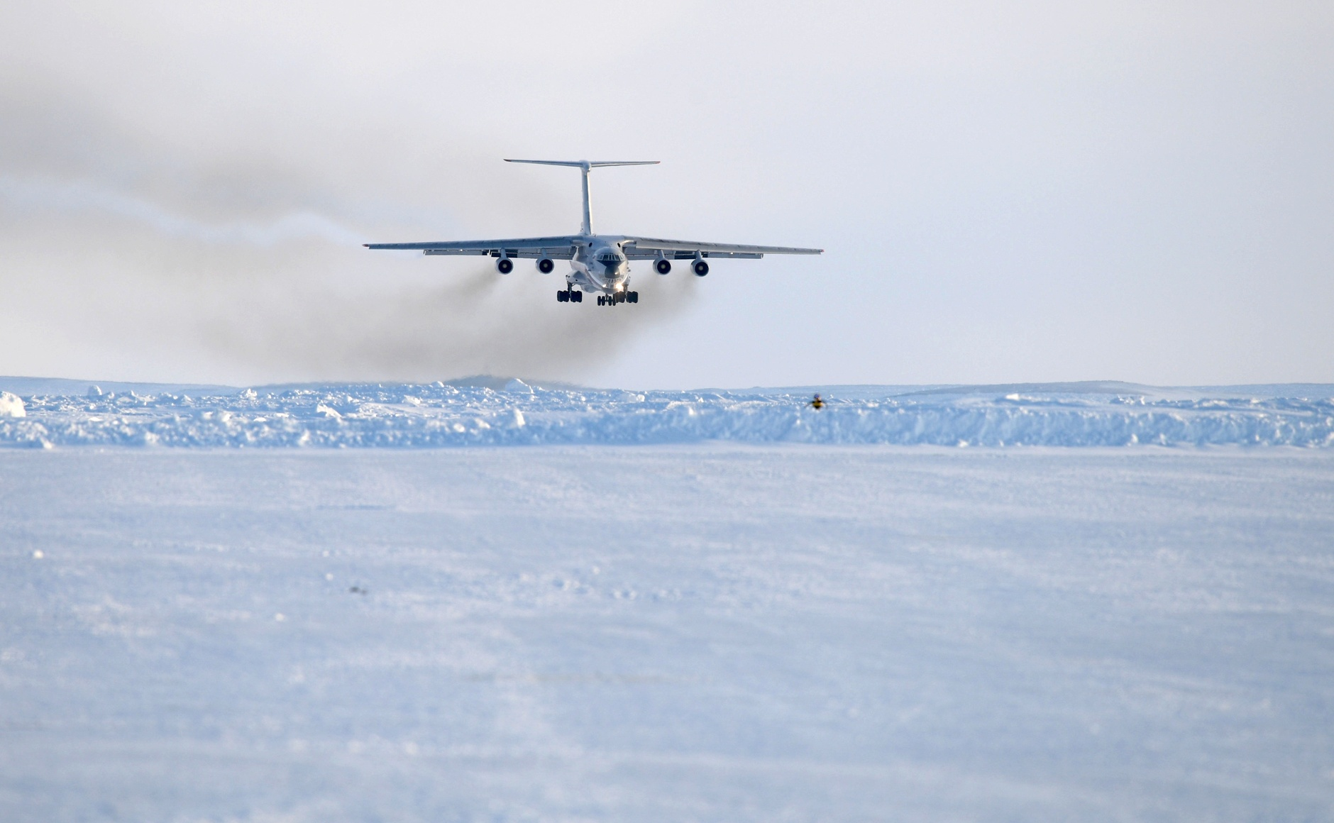 Vladimir Putin arriving at Nagurskoye airbase on Ilyushin Il-76